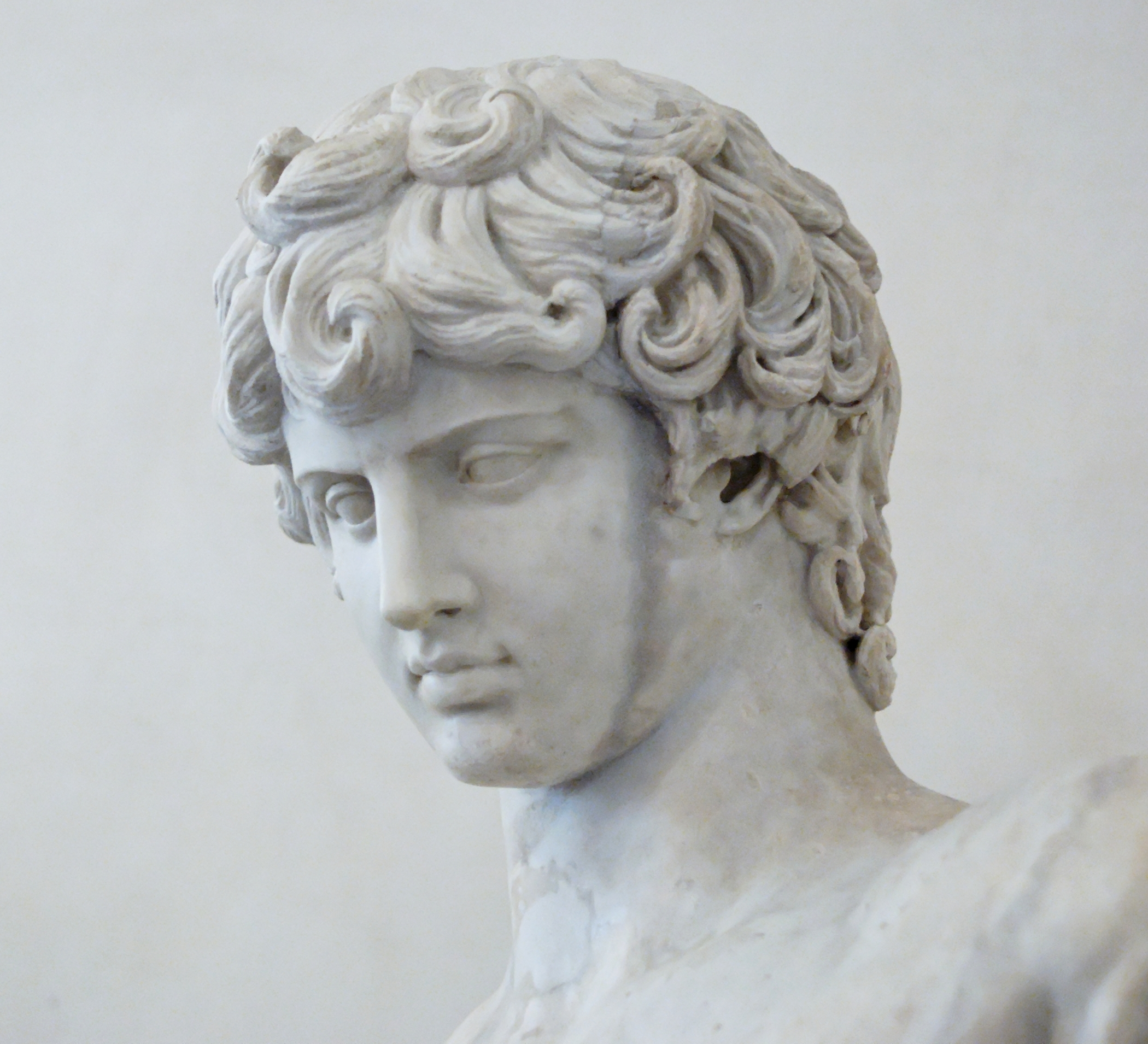 Antinous. Carrara marble, modern restoration after known antique portraits of Antinous. The bust and part of the nape of the neck are thought to be antique.